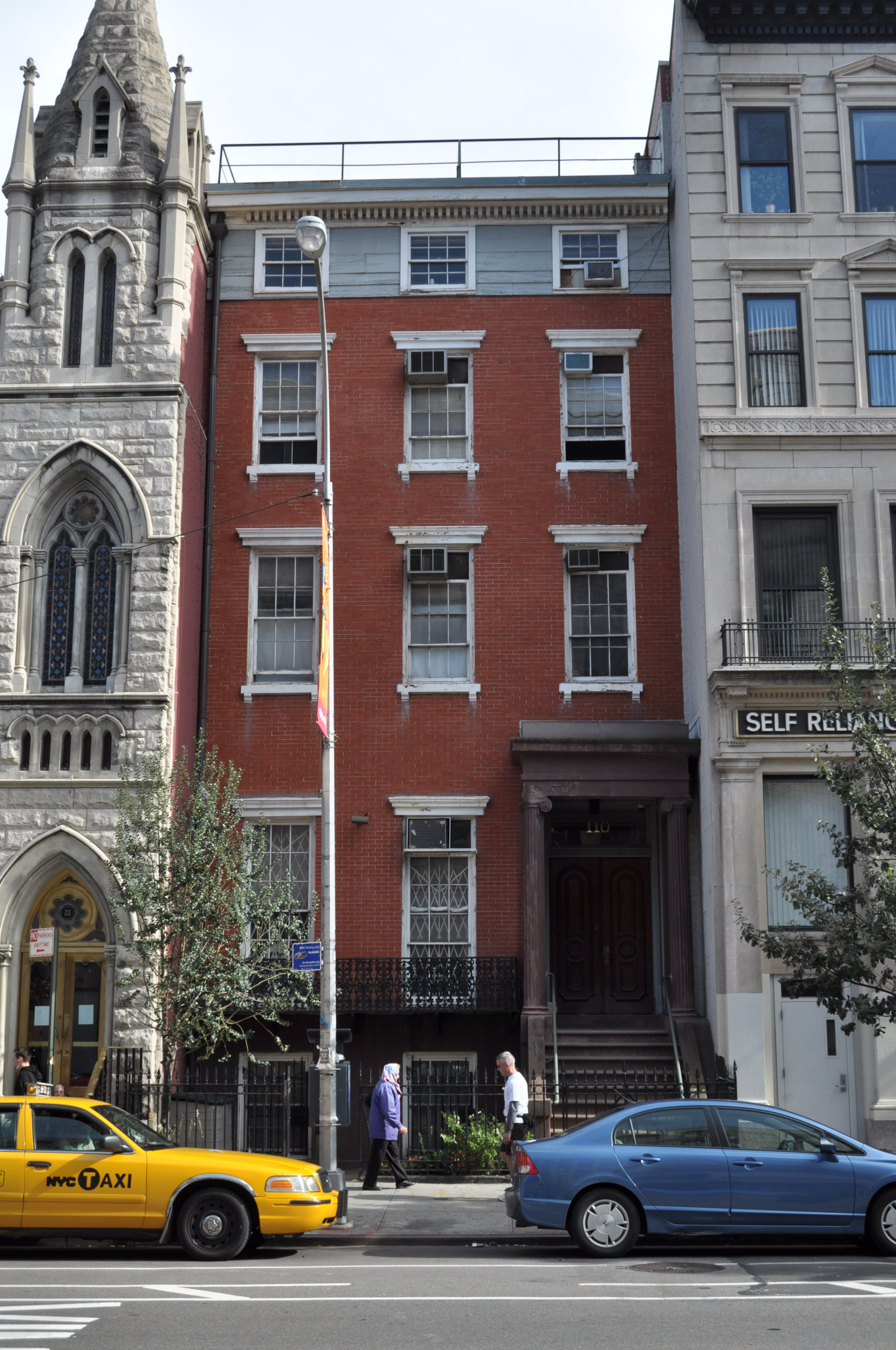 Isaac T. Hopper House in New York City